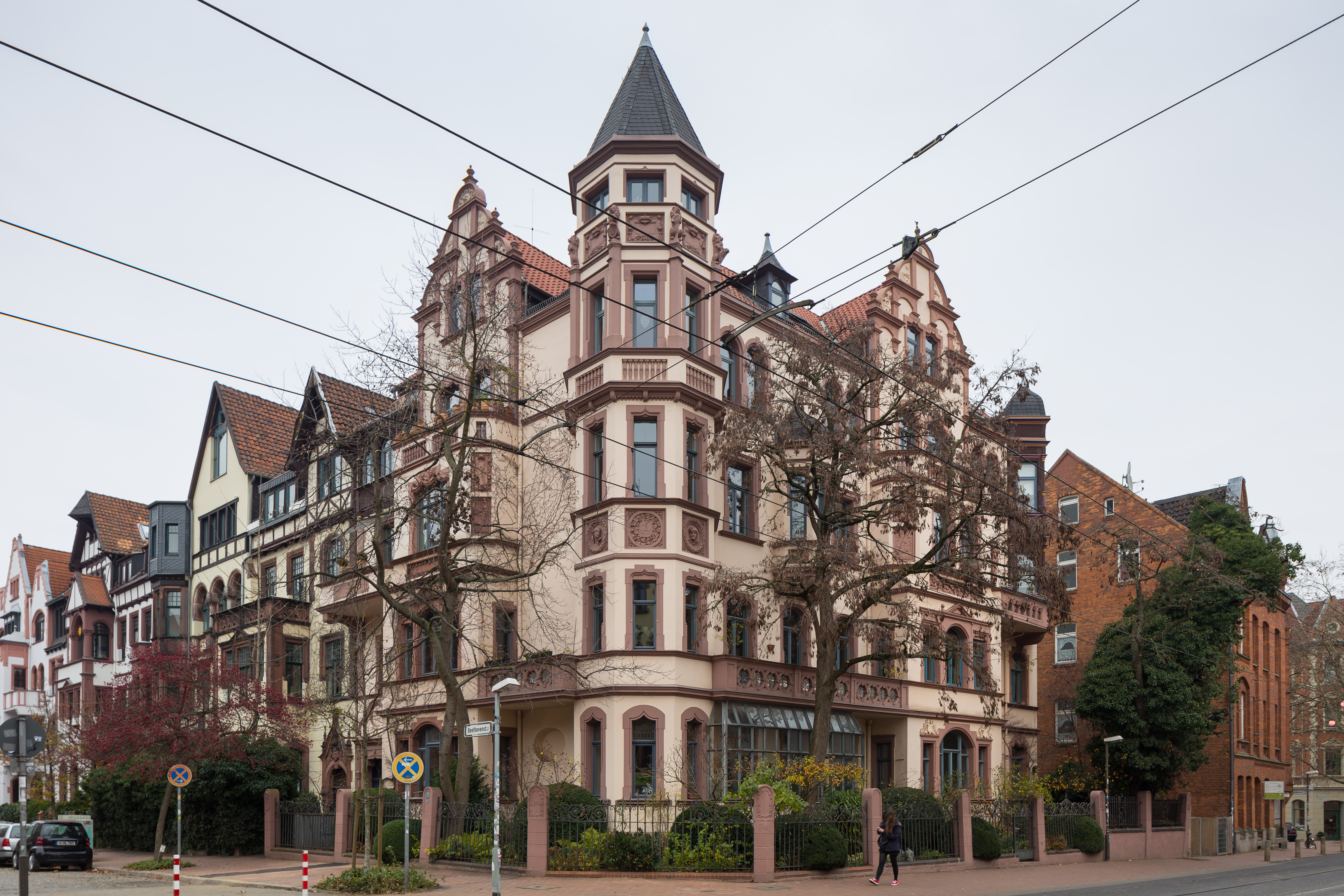 Apartment house located at Nieschlagstrasse and Beethovenstrasse in Linden-Mitte district of Hannover, Germany.